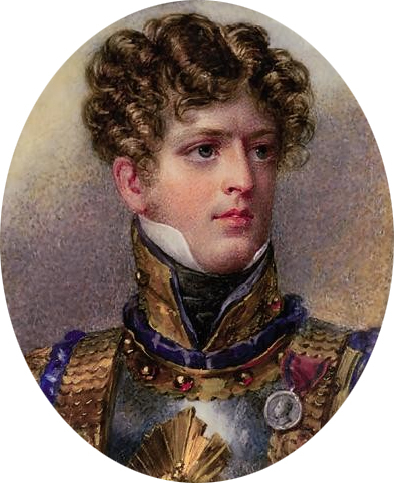 Colonel Sir Horace Beauchamp Seymour (1791-1851), in uniform of the 1st Life Guards, gilt-bordered steel breast-plate, with gilt collar and black stock, wearing the Waterloo medal signed and dated in full on the backing card, 'Painted by Wm Egley 40 London Street Fitzroy Square 1840 From a miniature by Isaby' [sic] on ivory oval, 2 in. (52 mm.) high, engine-turned gilt-metal hinged locket frame, the interior cover engraved 'Sir Horace Seymour, K.C.H. 1791-1851. By William Egley, 1840. after J.B. Isabey.'